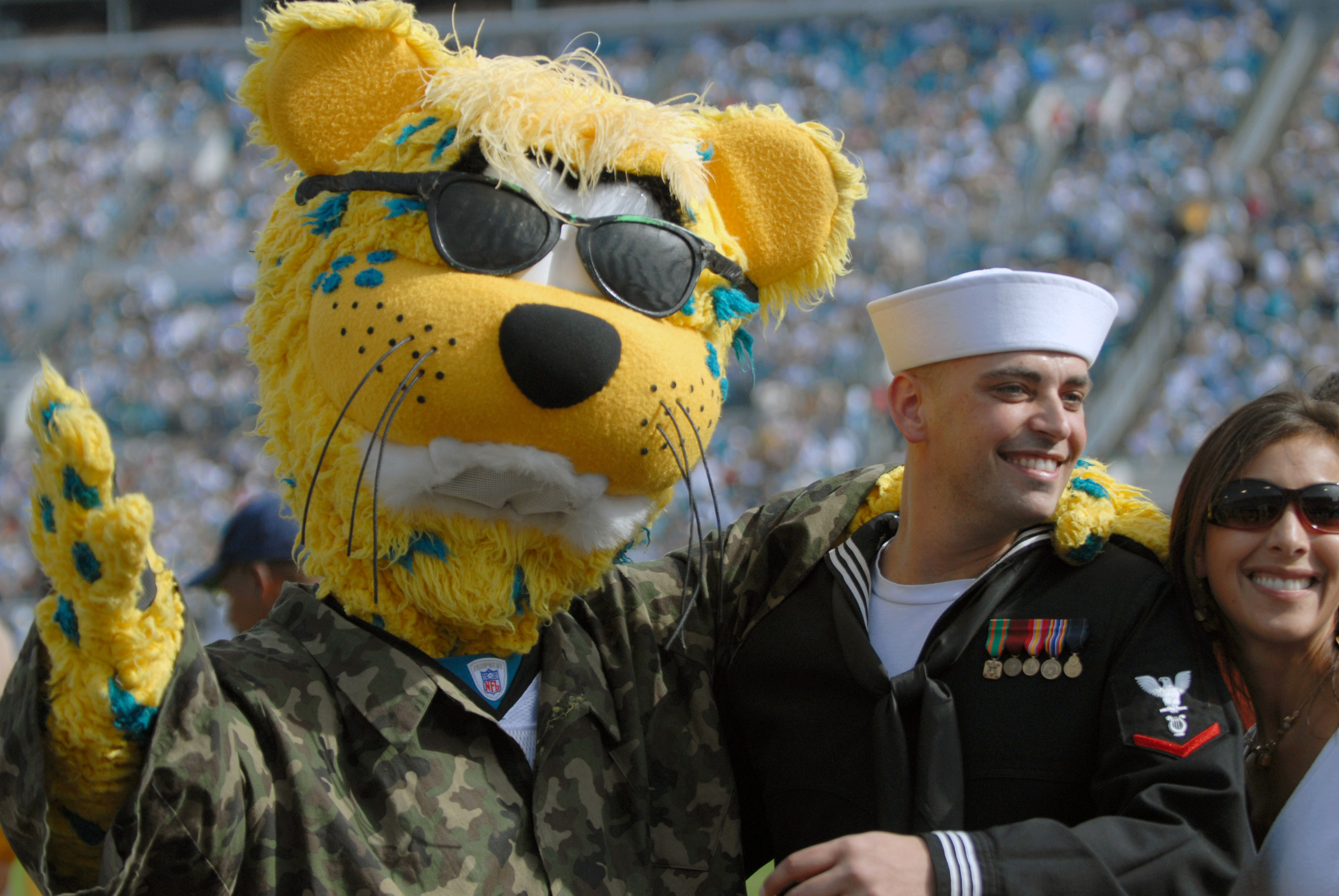 JACKSONVILLE, Fla. (Nov. 18, 2007) Petty Officer 3rd Class and American Idol finalist Phil Stacey embraces the Jacksonville Jaguars mascot, Jaxson de Ville, during pregame ceremonies. Stacey was on hand to sing the national anthem and a special military tribute song during the Jaguars half time show.